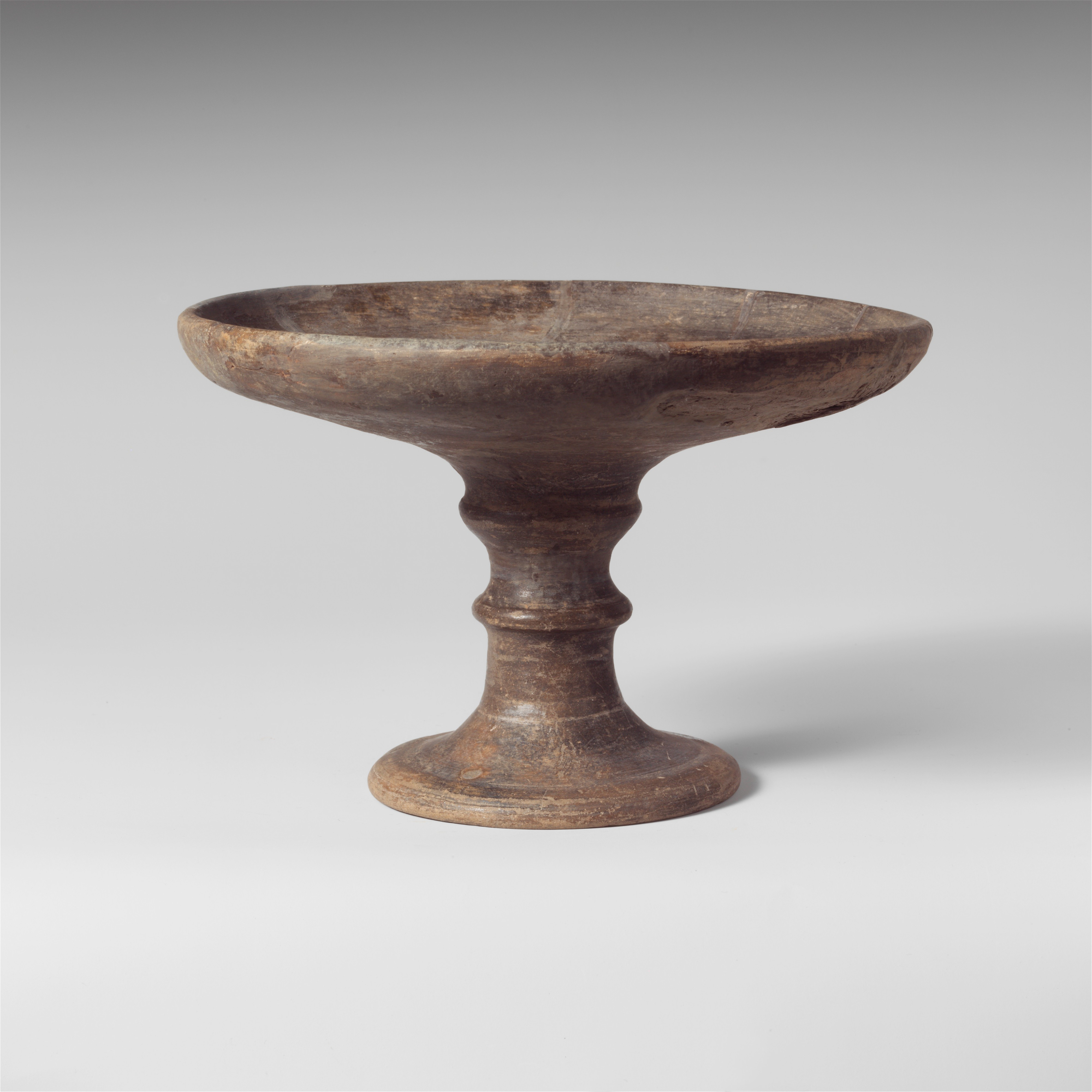 Lydian; Stemmed dish; Vases; Shallow bowl on high foot, gray ware without decoration.